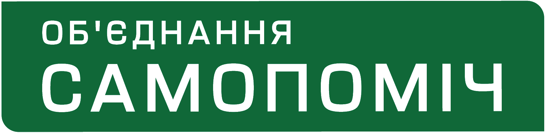 Samopomich